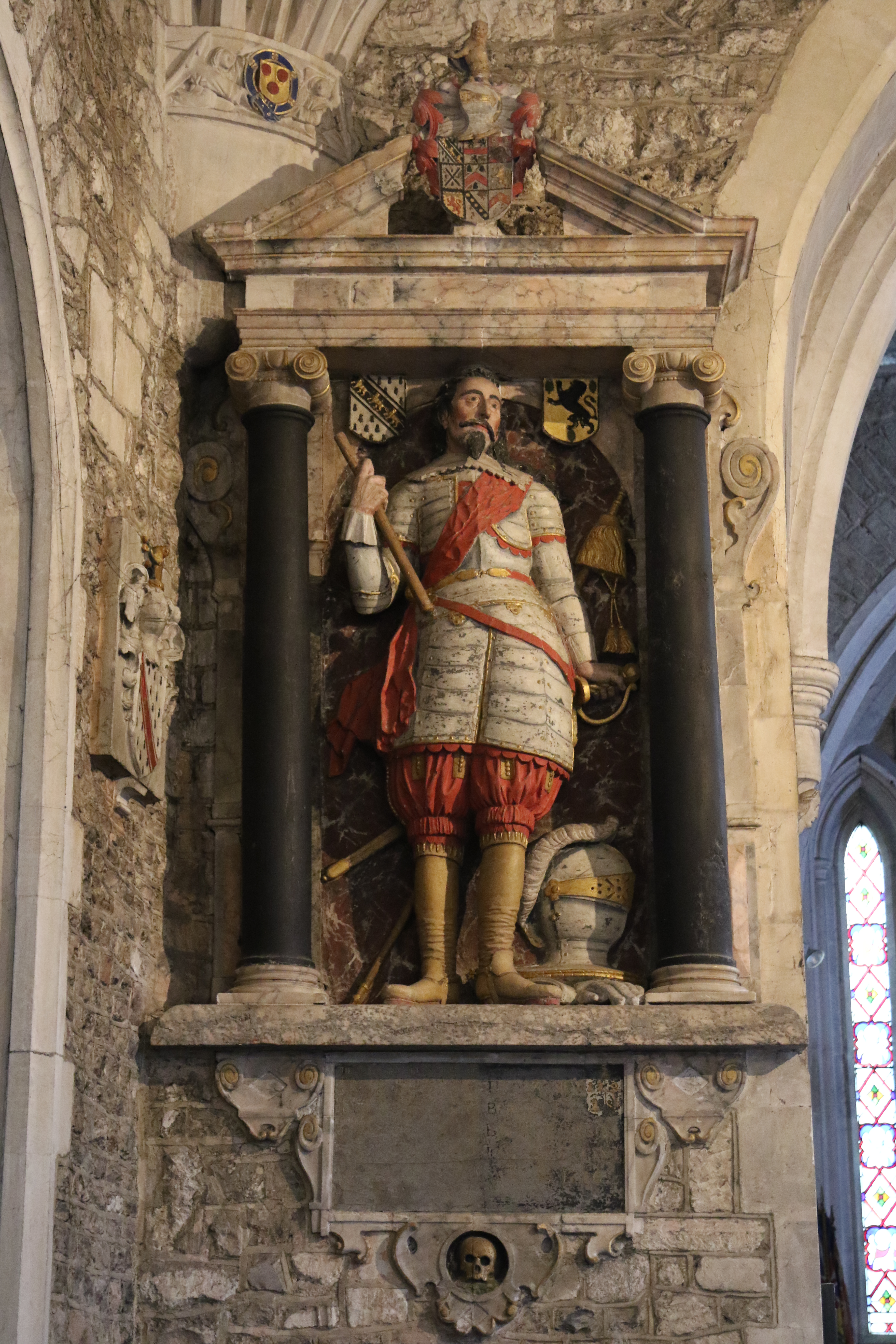 The monument of John Coke of Thorne Esq, the Sone of Christopher Coke and of Joan, the daughter of Richard Coplestone Esq. He married Margaret, the Daughter of Richard Sherman Gent. and had issue Richard John William Jane & Joan. He was of the age of 42 years and 7 months and dyed the 28th daye of March 1632. He holds the baton of a military commander (compare style of monument and baton with monument to John Northcote (d.1632) in Newton St Cyres Church File:JohnNorthcoteStanding EffigyNewtonStCyres.JPG). (He was a member of the Cooke family of Thorne in the parish of Ottery St Mary; arms: Ermine, on a bend cotised gules three cats-a-mountain passant guardant or (Vivian, Lt.Col. J.L., (Ed.) The Visitations of the County of Devon: Comprising the Heralds' Visitations of 1531, 1564 & 1620, Exeter, 1895, p.222) The other shield is Sherman: Or, a lion rampant sable between three holly leaves vert (Vivian, p.680, Sherman)). On the column above left is a shield held by two angels displaying the arms of Courtenay circumscribed by the Garter, for one of the Courtenay Earls of Devon of Tiverton Castle, who was a Knight of the Garter. Similar to a pair in Tiverton Church.